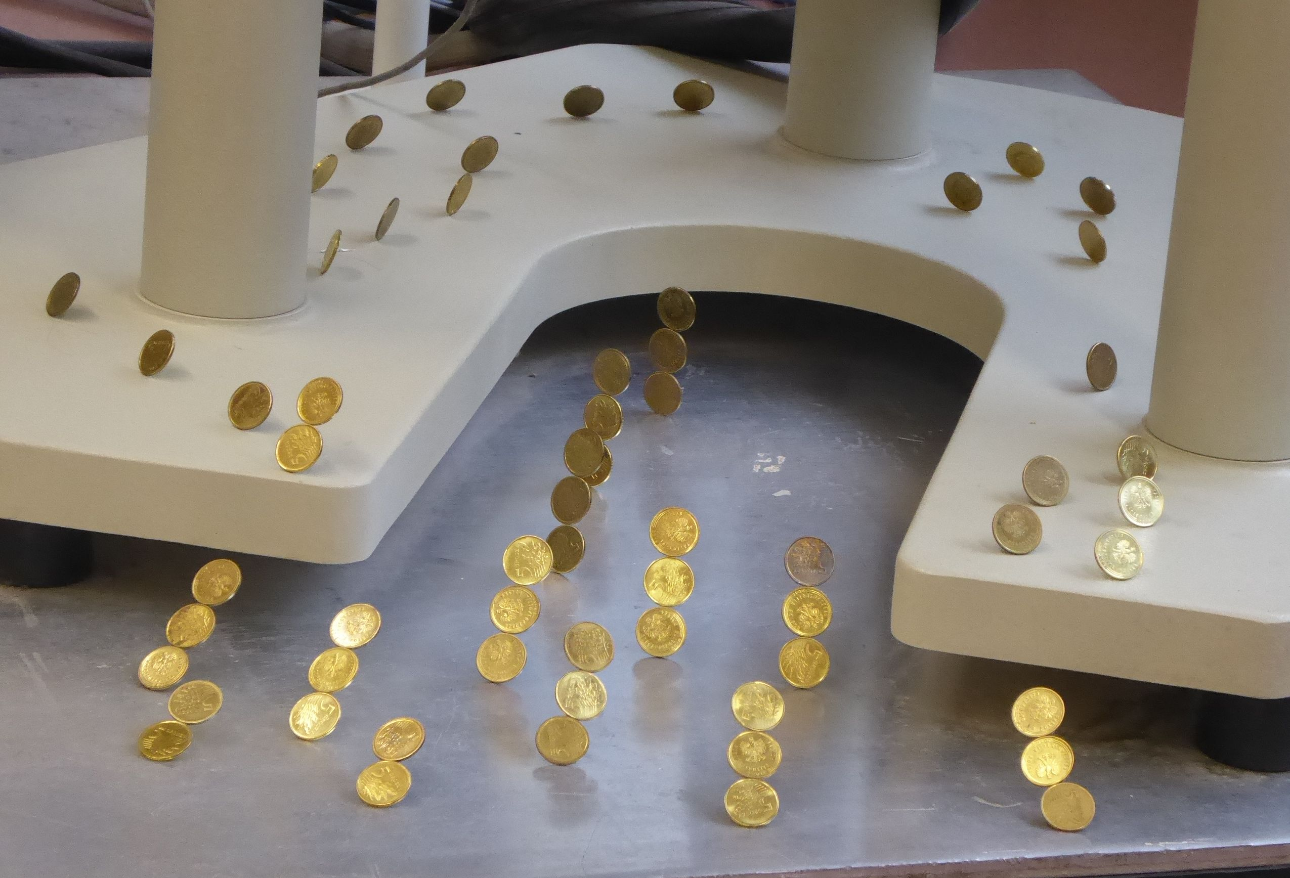 Polish coins standing under the unshild superconducting magnet. The effect of a constant magnetic field on coins is visible. The arrangement of coins illustrates the distribution of magnetic field lines.